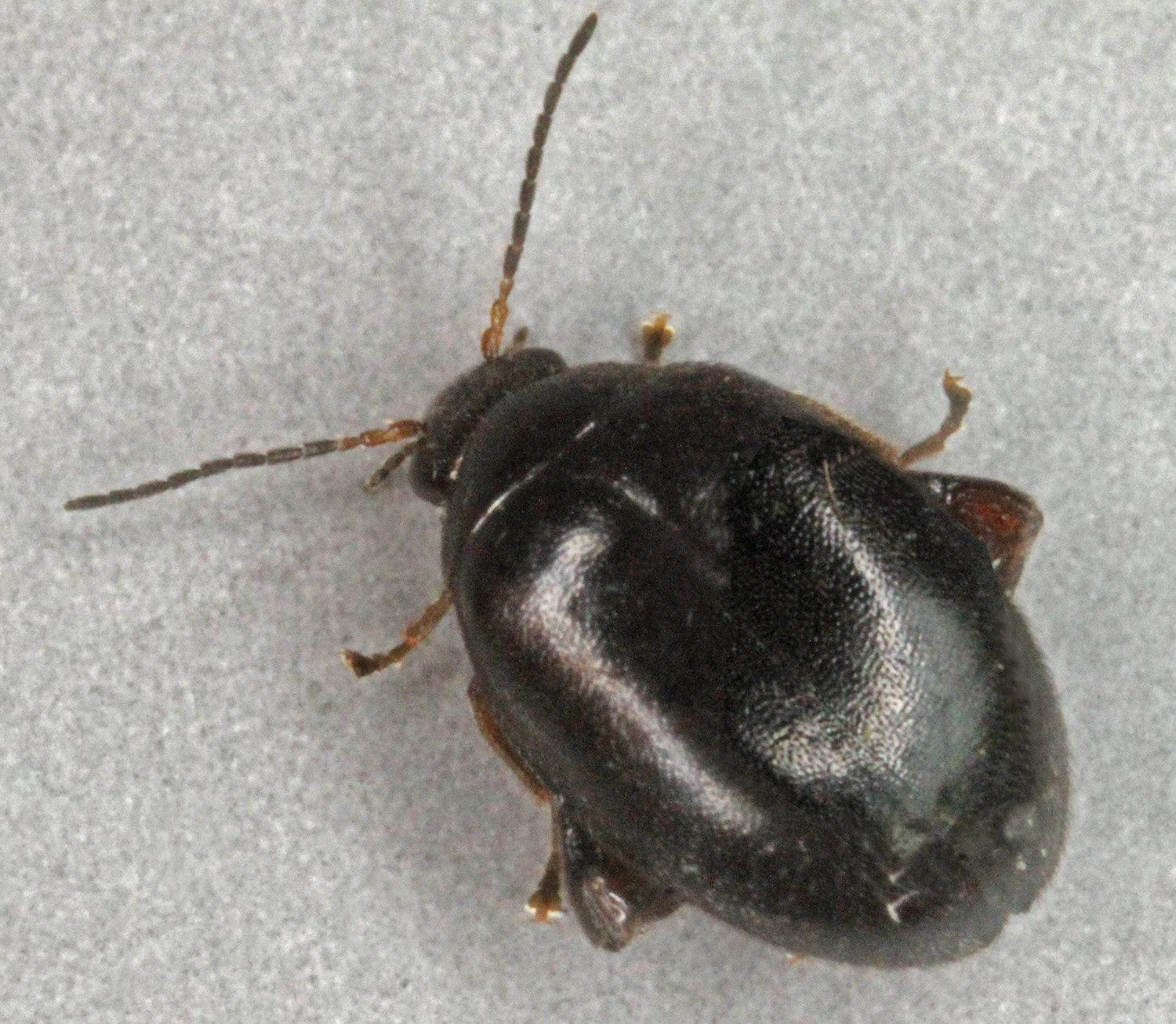 Scirtes hemisphaericus, Whistling Sands, North Wales, August 2012